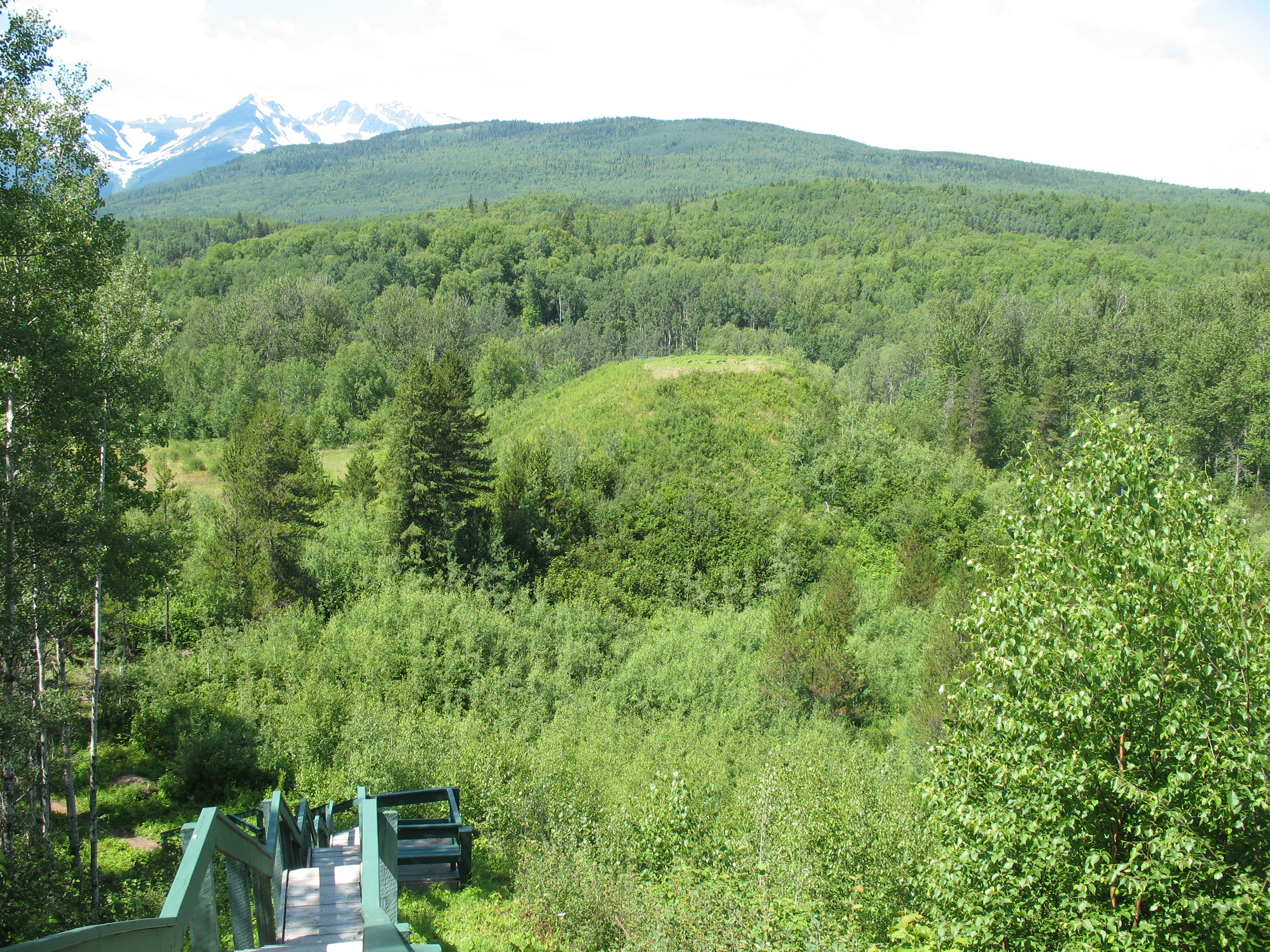 view of Gitwangak Battle Hill, archeologic site in British Columbia